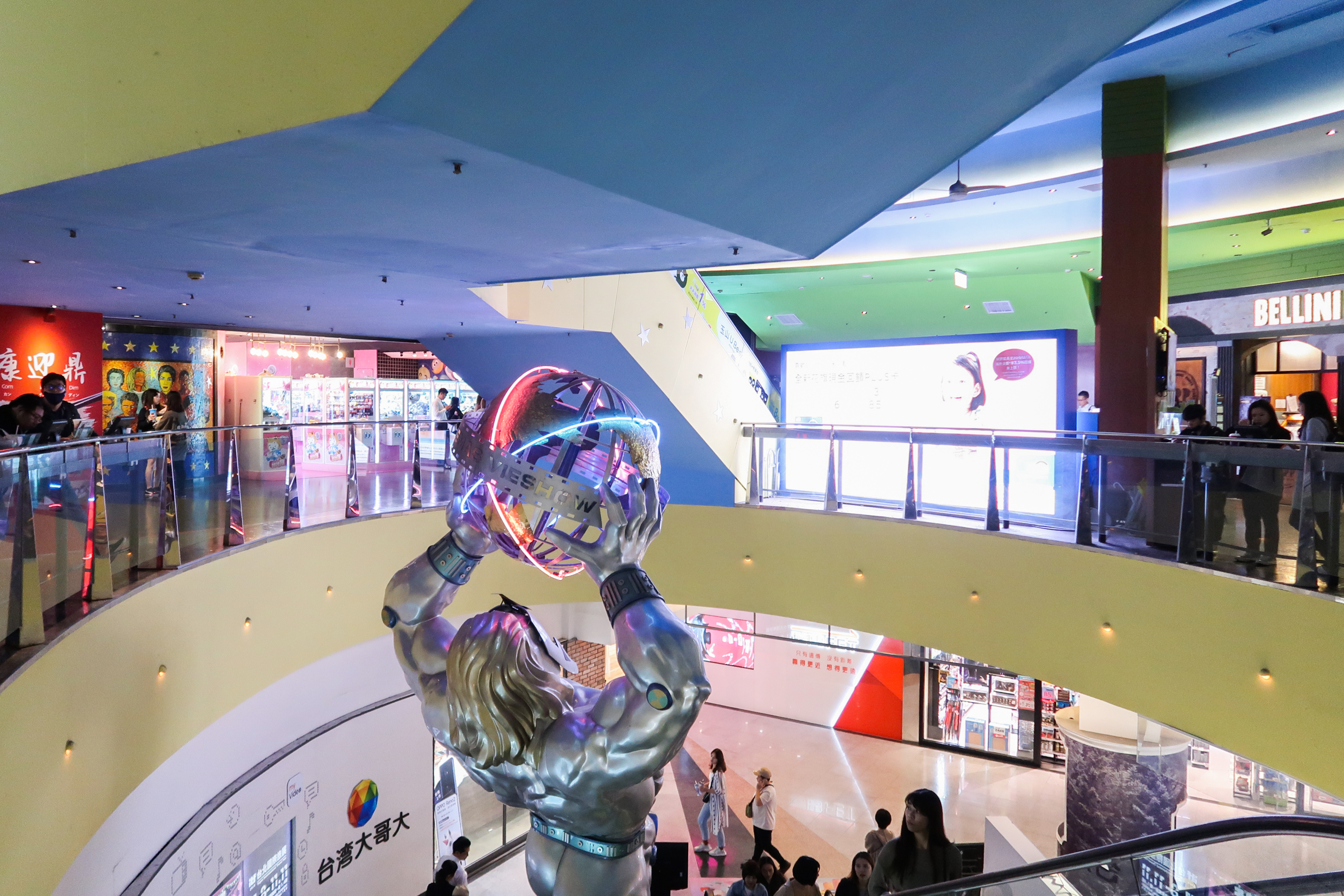 Vie Show Cinemas Taipei Hsin Yi